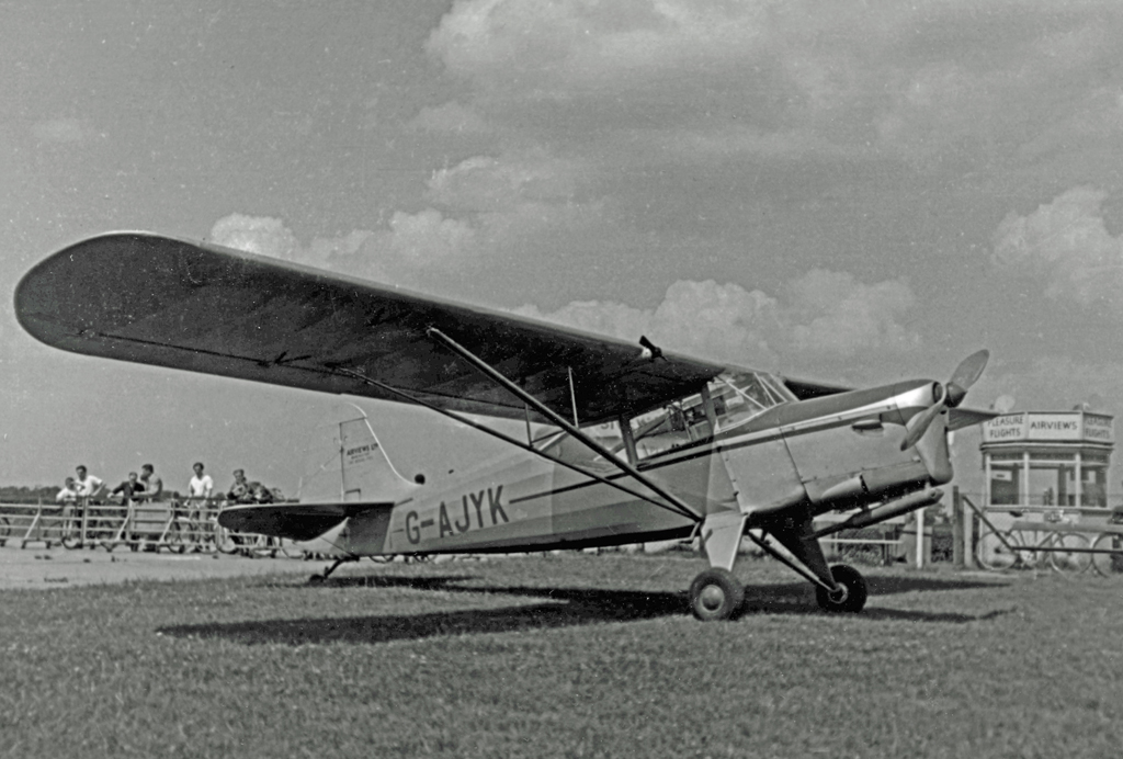 The prototype Auster J/5B Autocar of Airviews Ltd at Manchester (Ringway) Airport in July 1950